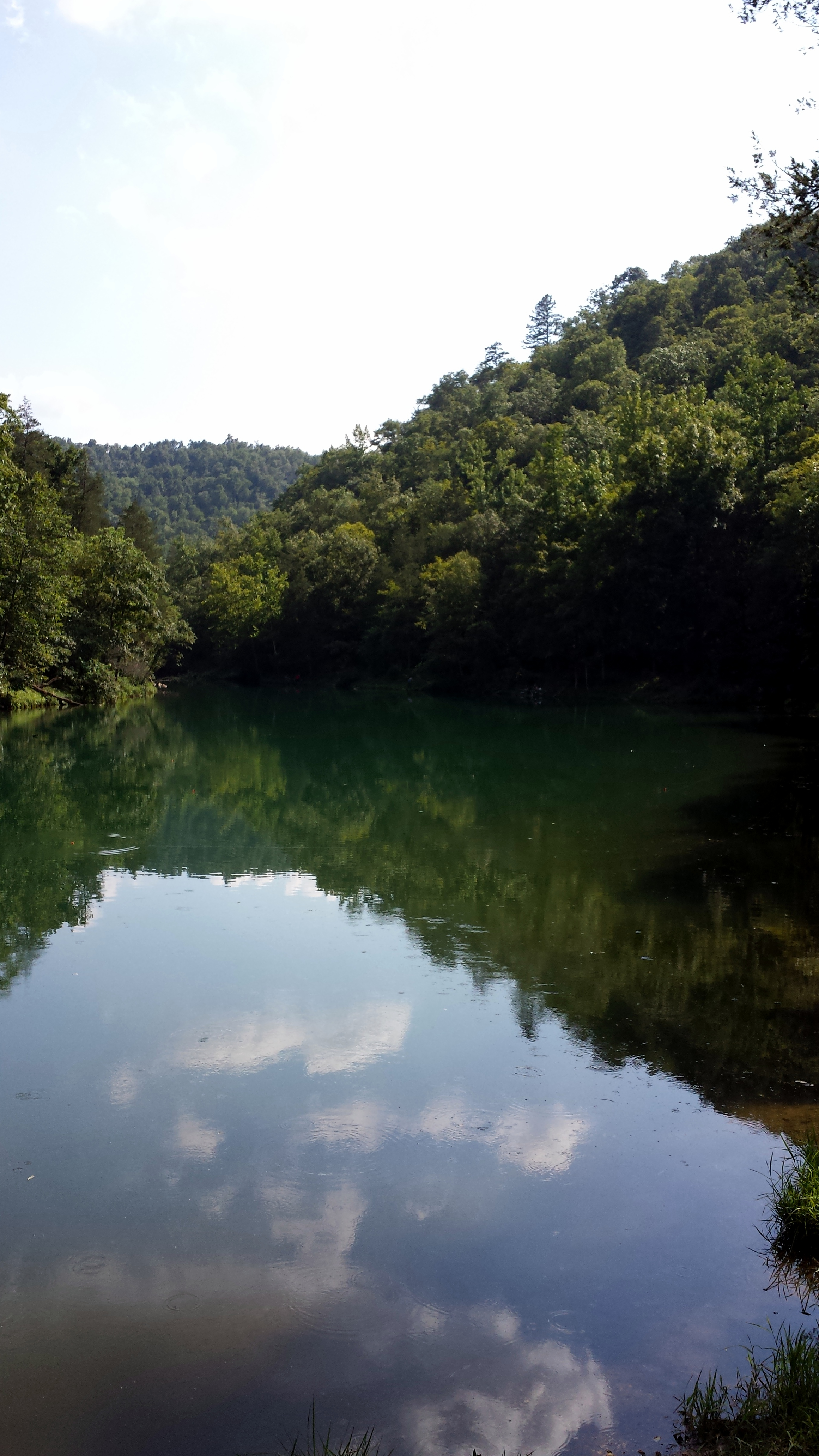 Mirror Lake Historic District